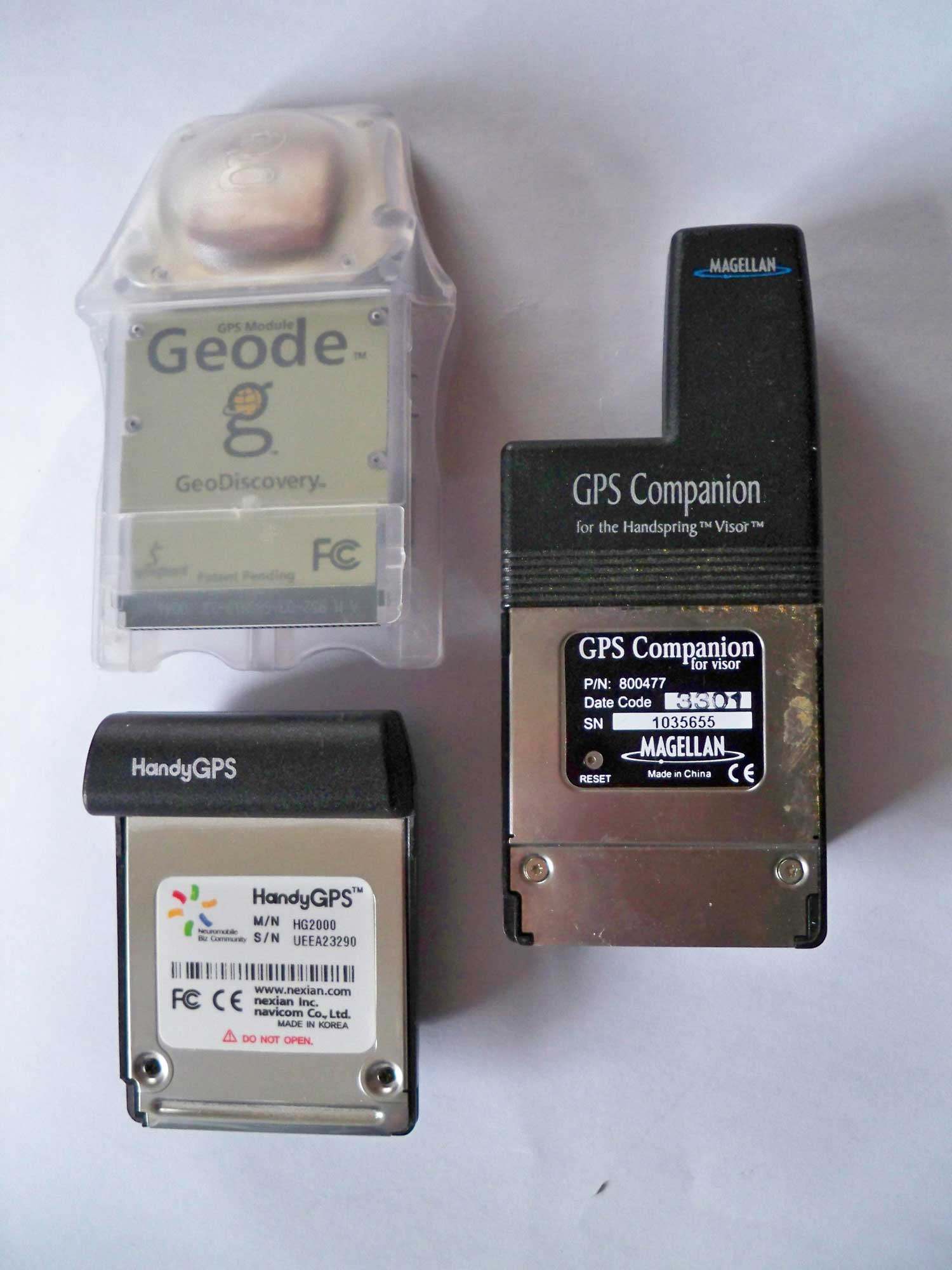 Springboard Expansion modules for PDA Handspring Visor: GPS